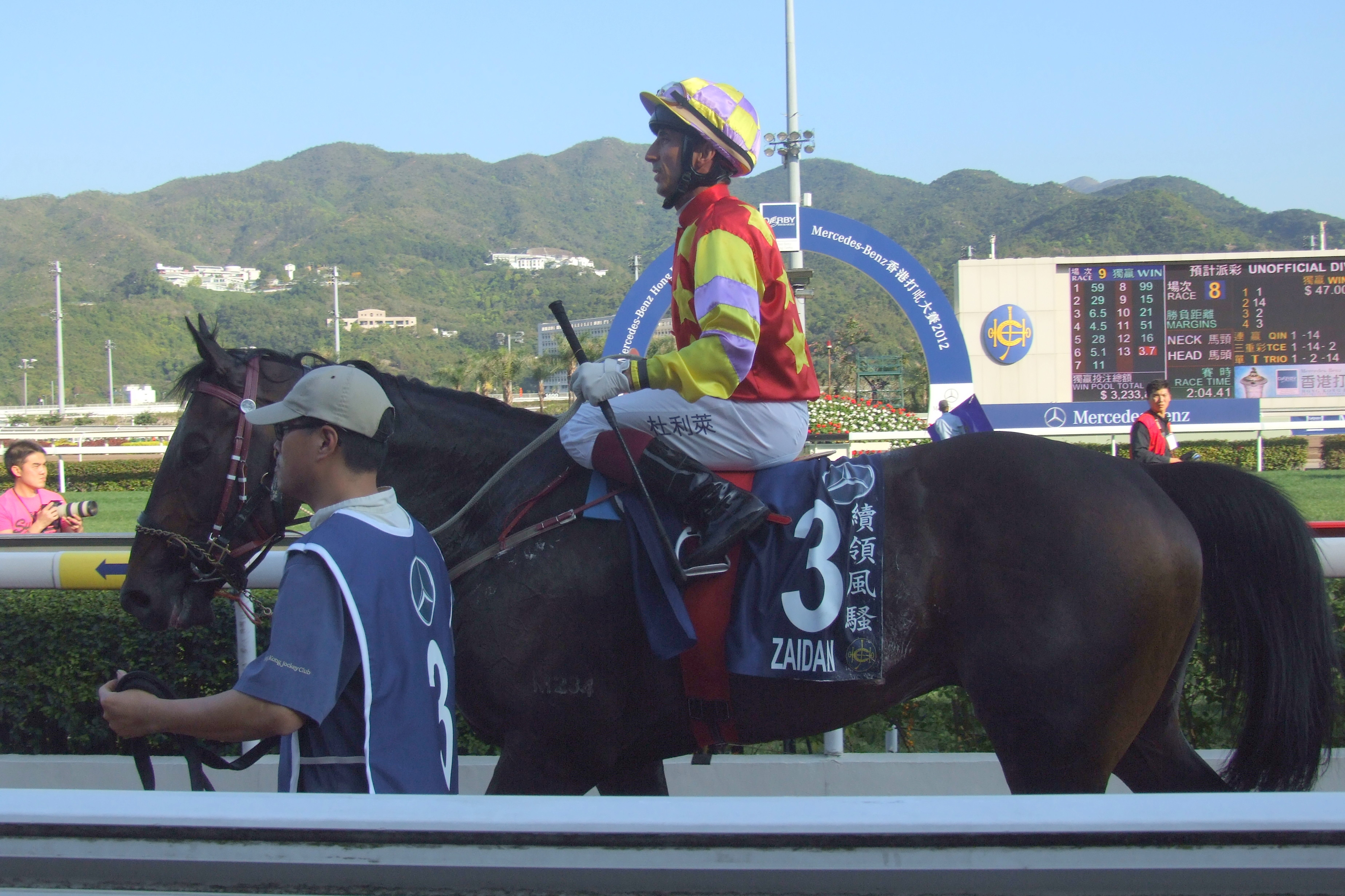 Zaidan